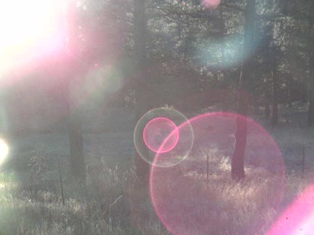 Lens flare as seen in a TrendNet TV-IP100, which has a fixed aperture 6mm f/1.8 lens. 1/4" Sensor. The sun is off the frame to the top-left, but you can see the reflection of the lens in the upper-right of the picture.